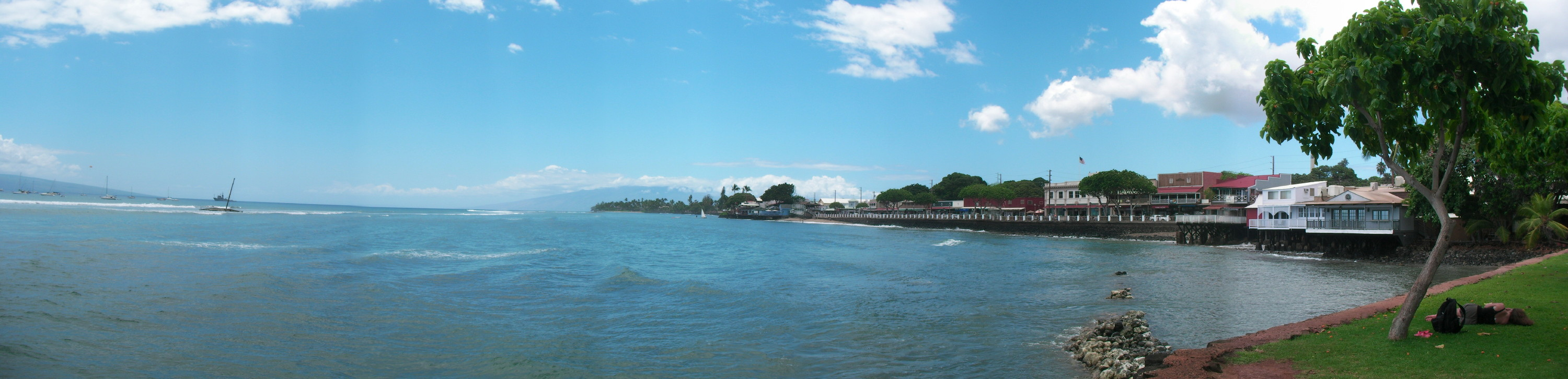 Central Lahaina Waterfront Panorama (Maui, Hawaii) – Taken June 2011, assembled from 6 separate images.